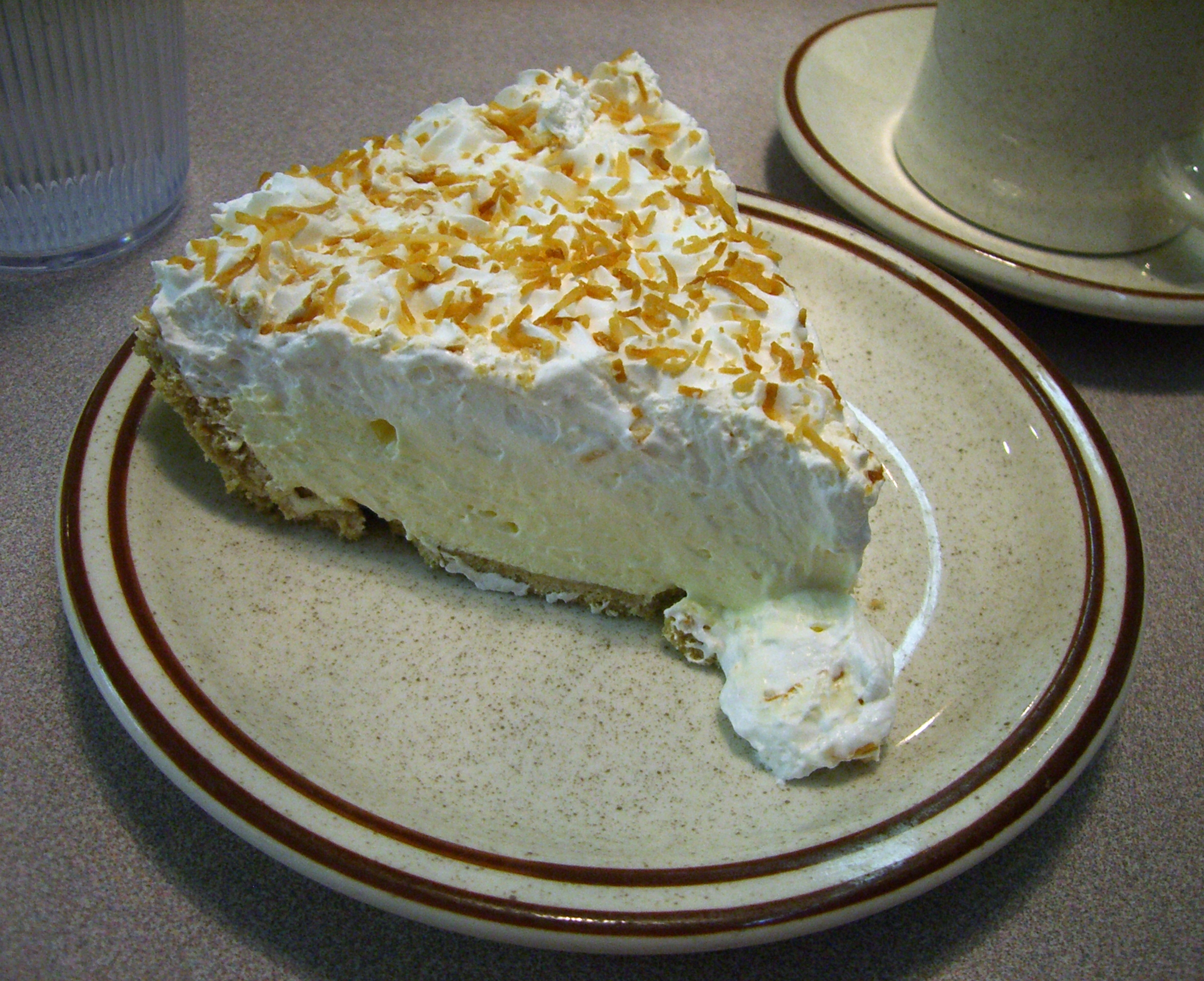 Photo of a slice of coconut cream pie. Taken at the Golden Nugget Restaurant, Chicago, Ill.